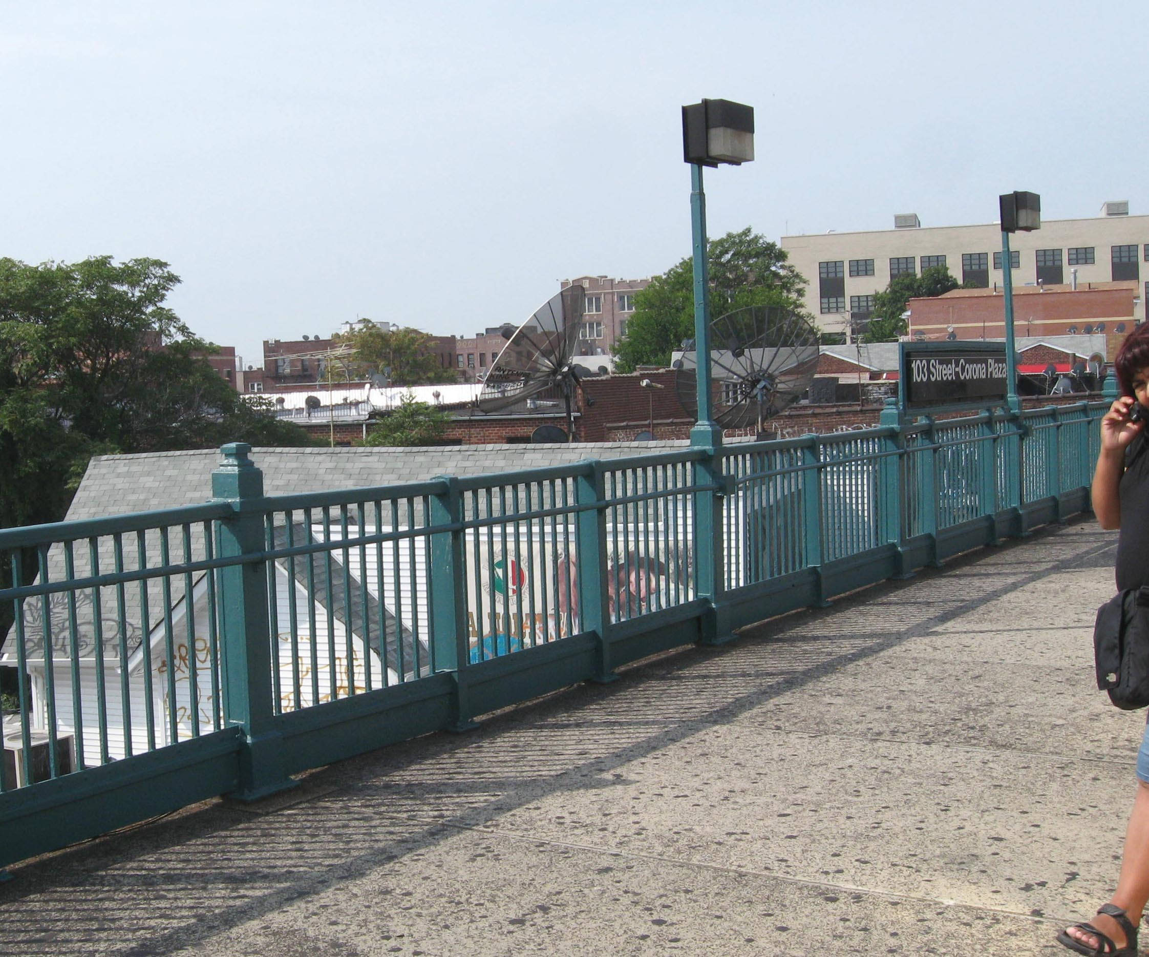 Looking southwest on eastbound platform of en:103rd Street–Corona Plaza (IRT Flushing Line) on a hazy late morning